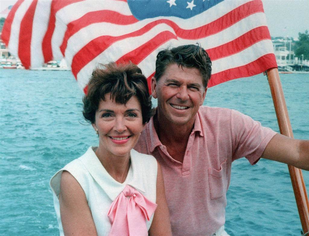 Ronald Reagan and Nancy Reagan aboard an American boat in California, 1964.